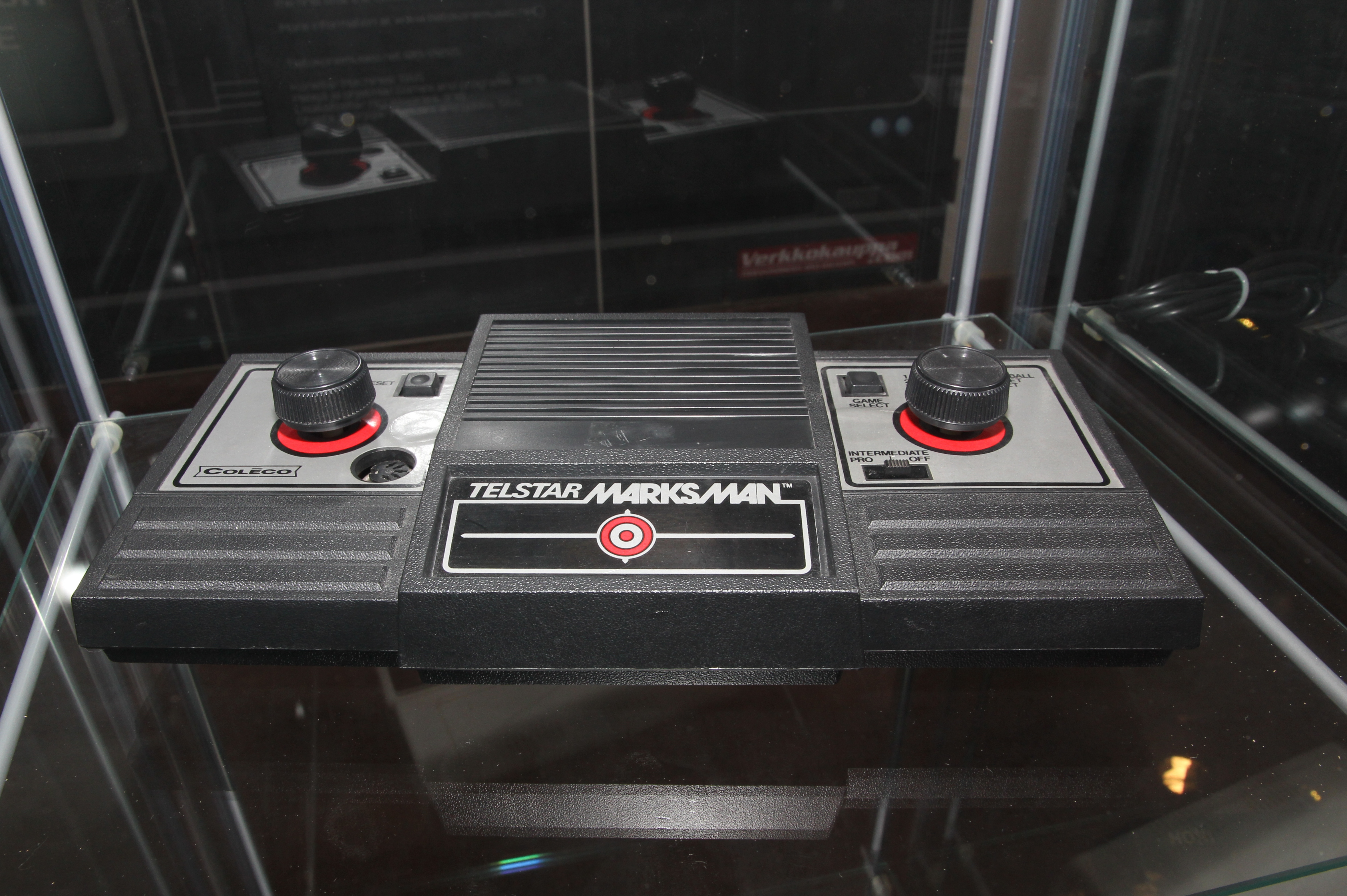 Coleco Telstar Marksman game console in Helsinki Computer and game console museum.